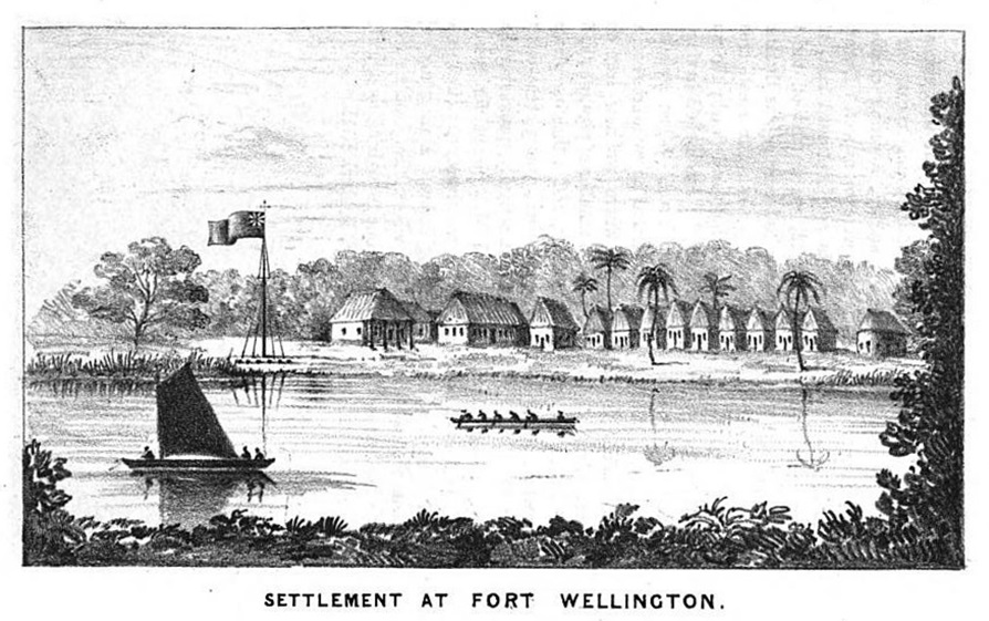 Engraving showing Fort Wellington (Poyais) on the Black River, Mosquito Coast, mid 1840s. The settlement had been built by the British Central American Company which wanted to establish settlers on the Mosquito Coast. Engraving from Thomas Young's Narrative of a Residence on the Mosquito Coast, etc., London, 1847.